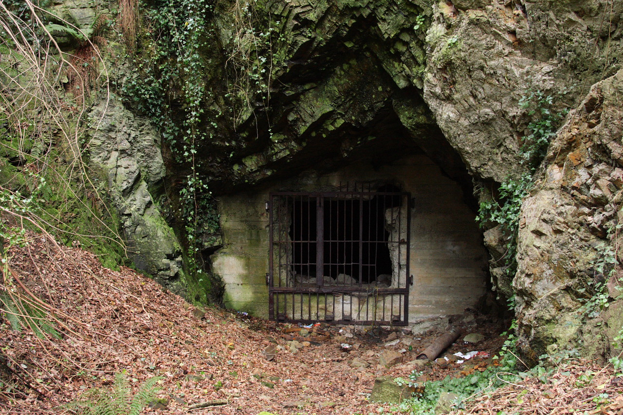 Hohlgangsanlage 2 Ration Storage Tunnel entrance, in Jersey.